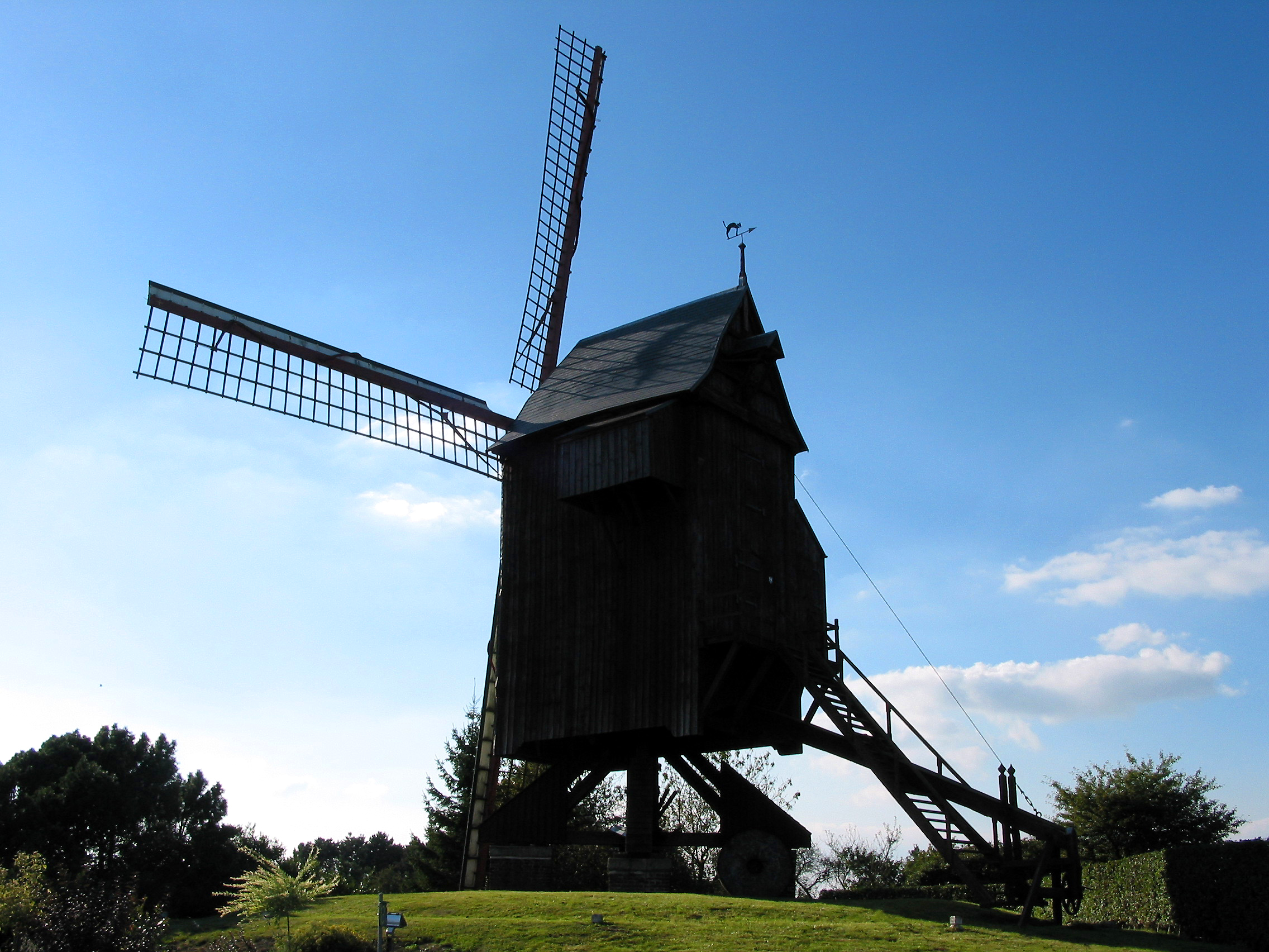 Ellezelles (Belgium), the "Wild cat" windmill (1751).